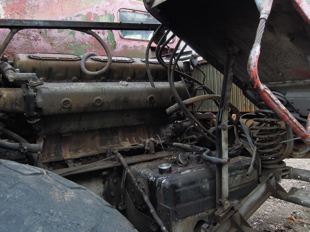 Diesel D12A-525A on firetruck MAZ-7310